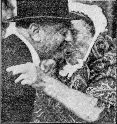 Photographs page